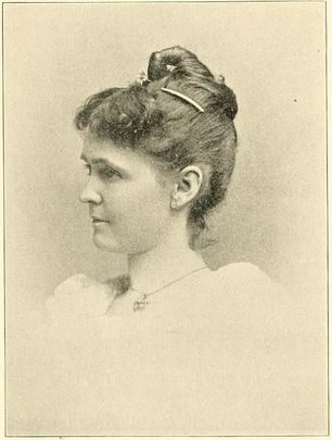 Ellen Martin